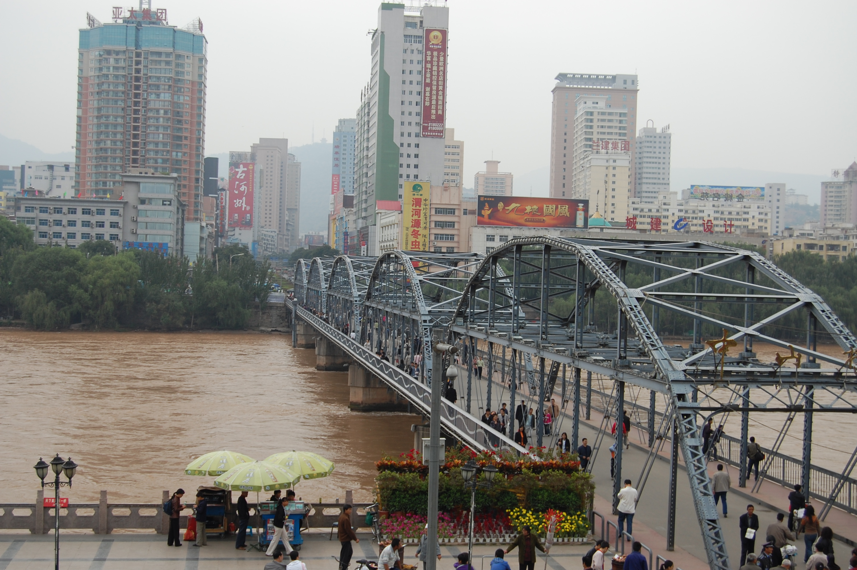 Zhongshan-Bridge in Lanzhou, Gansu Province, China